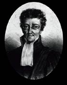 source: [1] 18:33, 5 October 2005 J heisenberg 139x175 (4354 bytes) (source: [